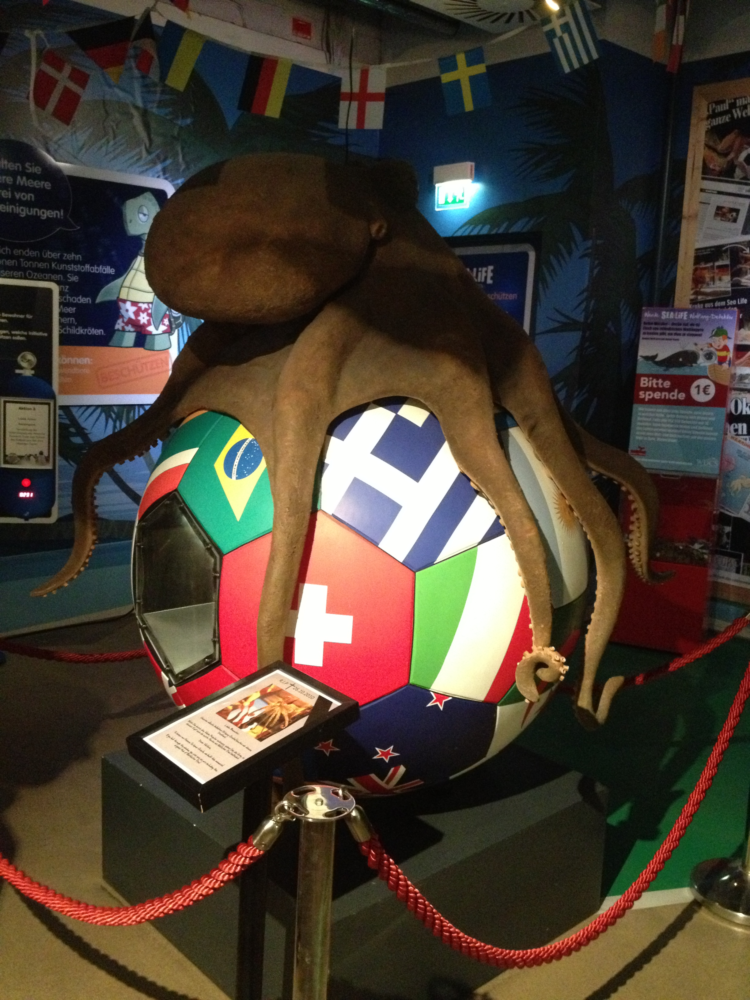 Paul the Octopus memorial statue at Sea Life Oberhausen, Germany.